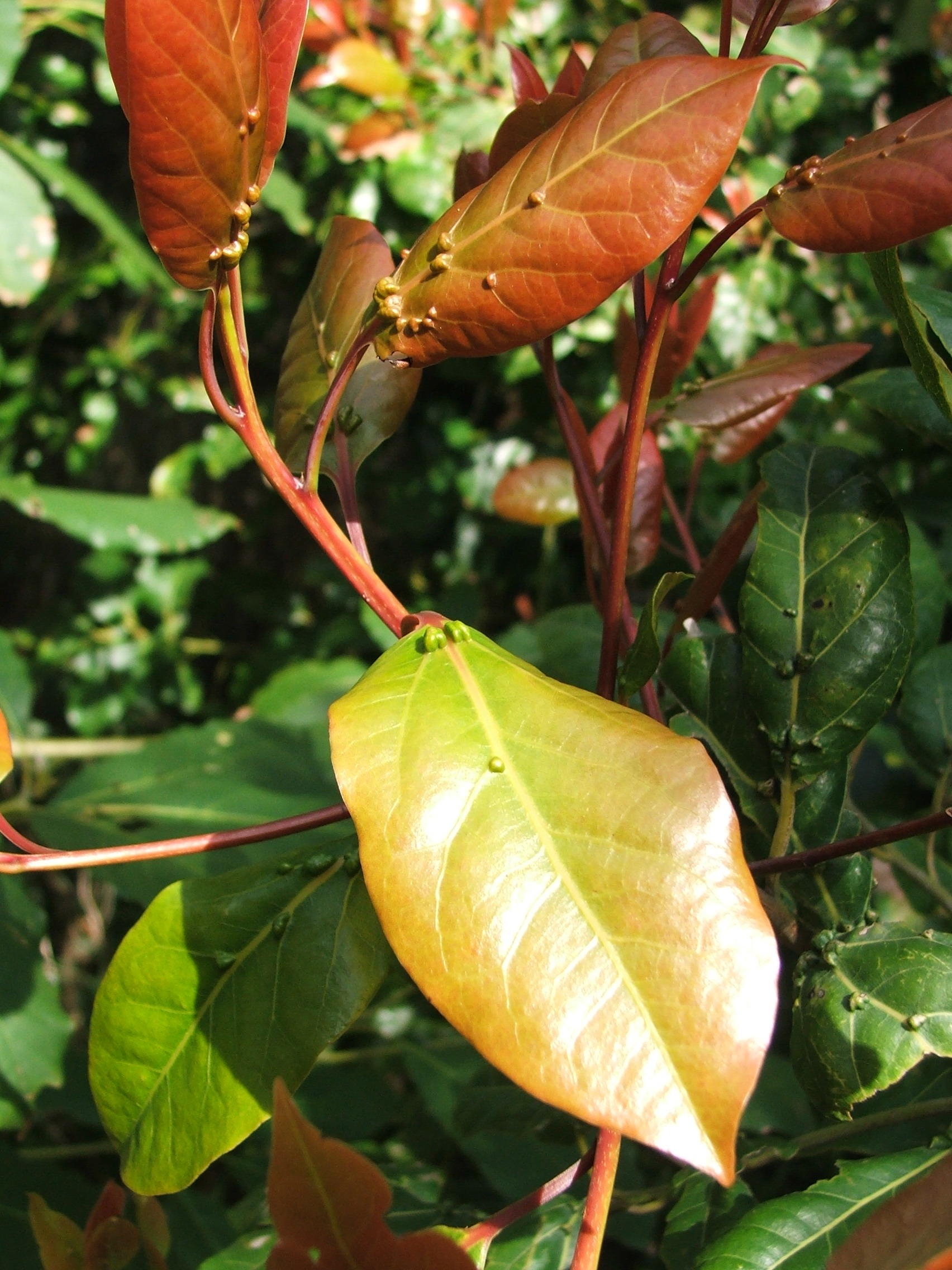 Ocotea bullata. The Black Stinkwood tree. Cape Town.